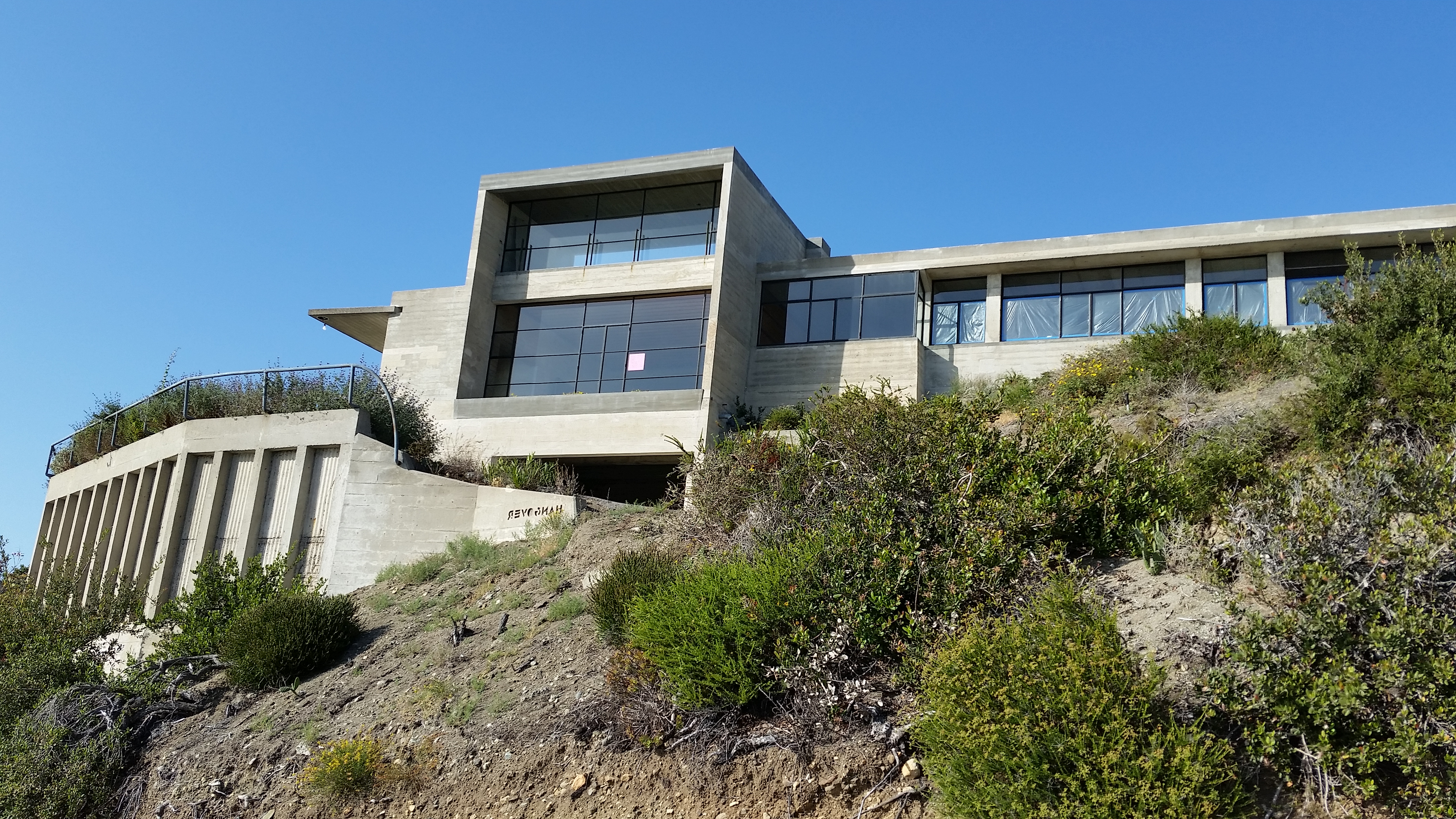 Built for author Richard Halliburton.